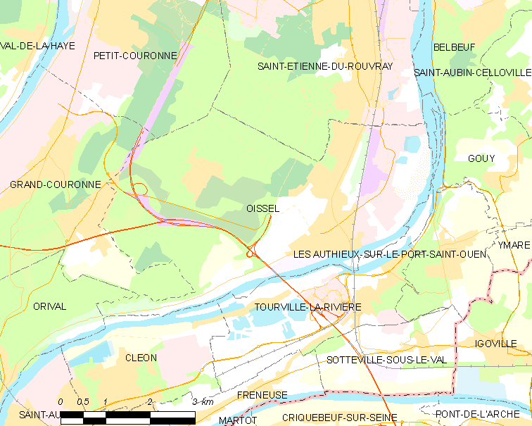 Map of French municipality Oissel